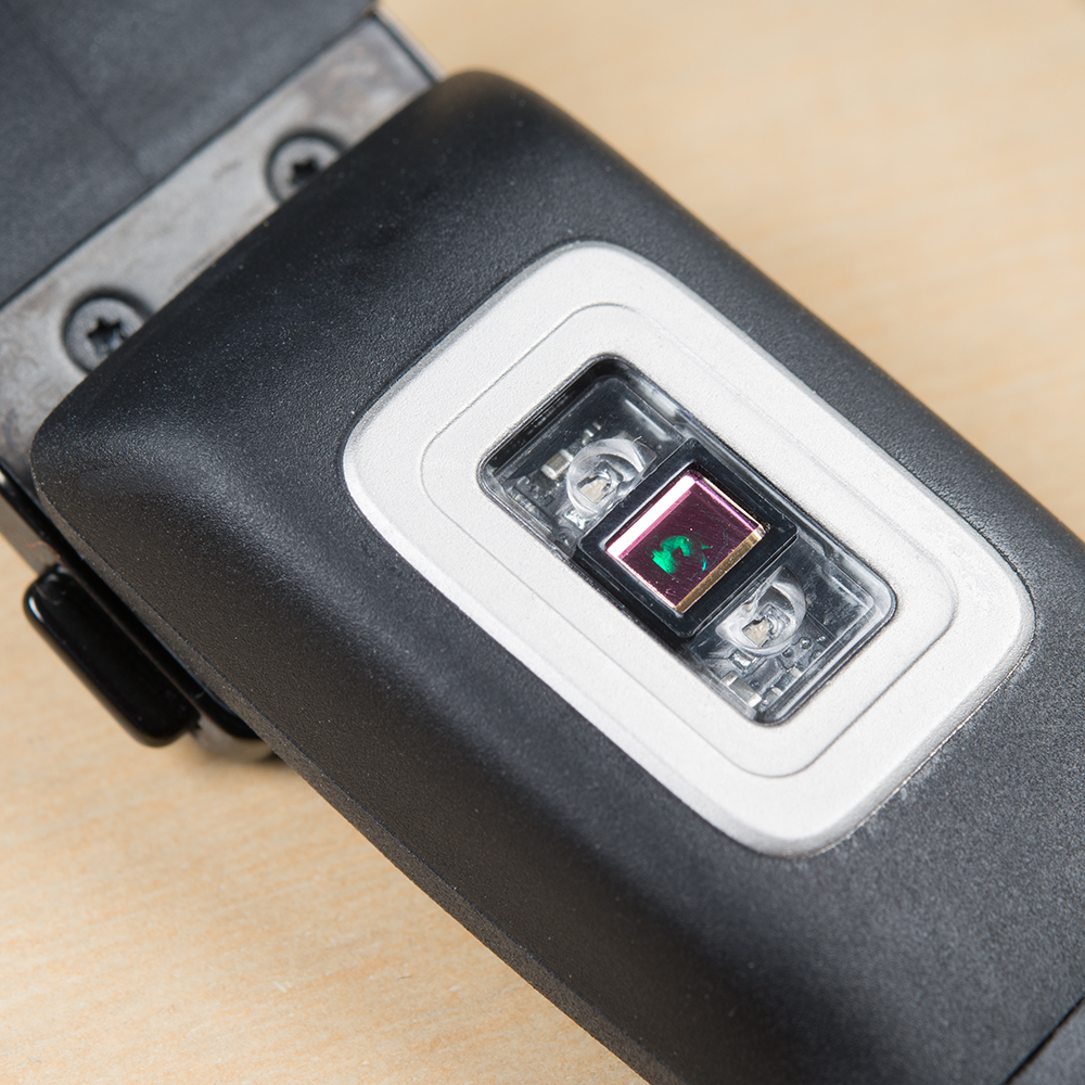 a 1st-generation Microsoft Band being torn down